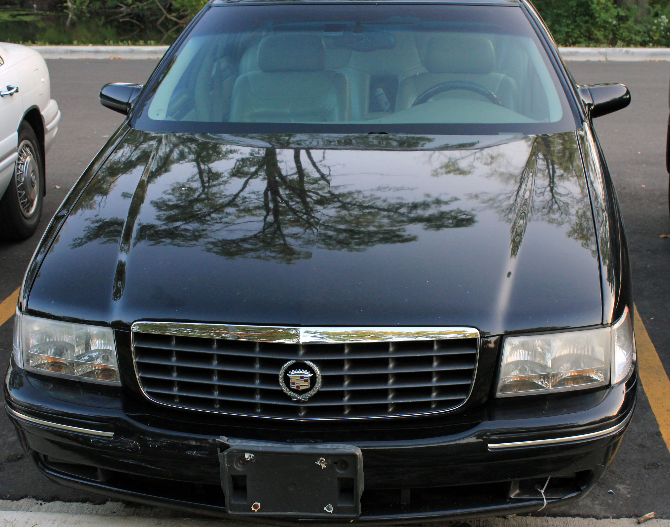 Photos of common and uncommon automobiles with license plates removed, of course. Black Cadillac. Editorial use only.